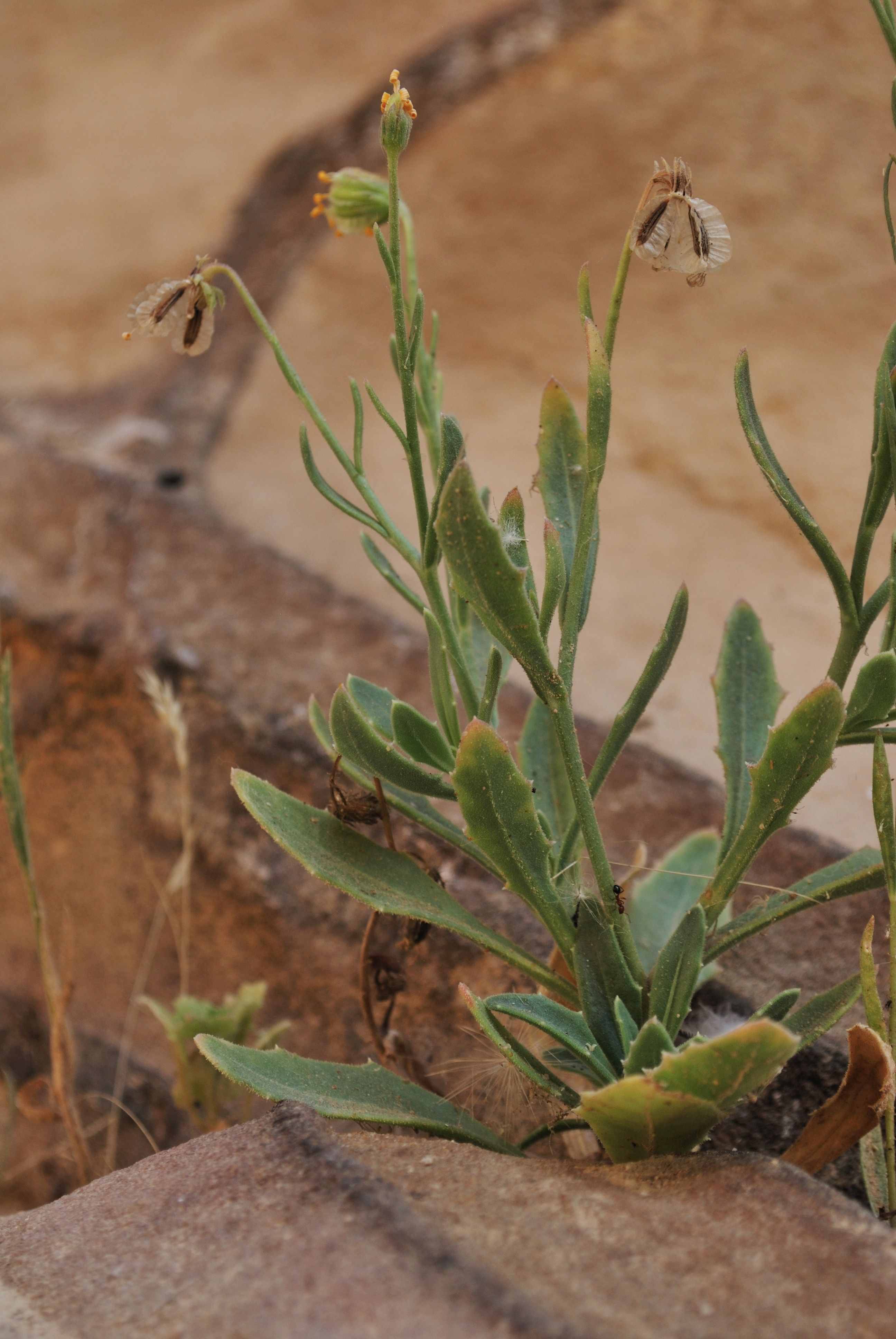 Tripteris vaillantii Decne., Wadi Ghuweir, Jordan, June 18, 2011.